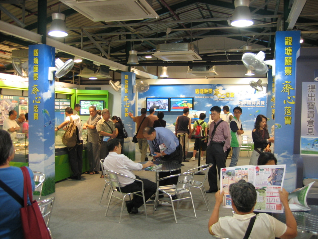 Kwun Tong Town Centre Redevelopment Exhibition Centre